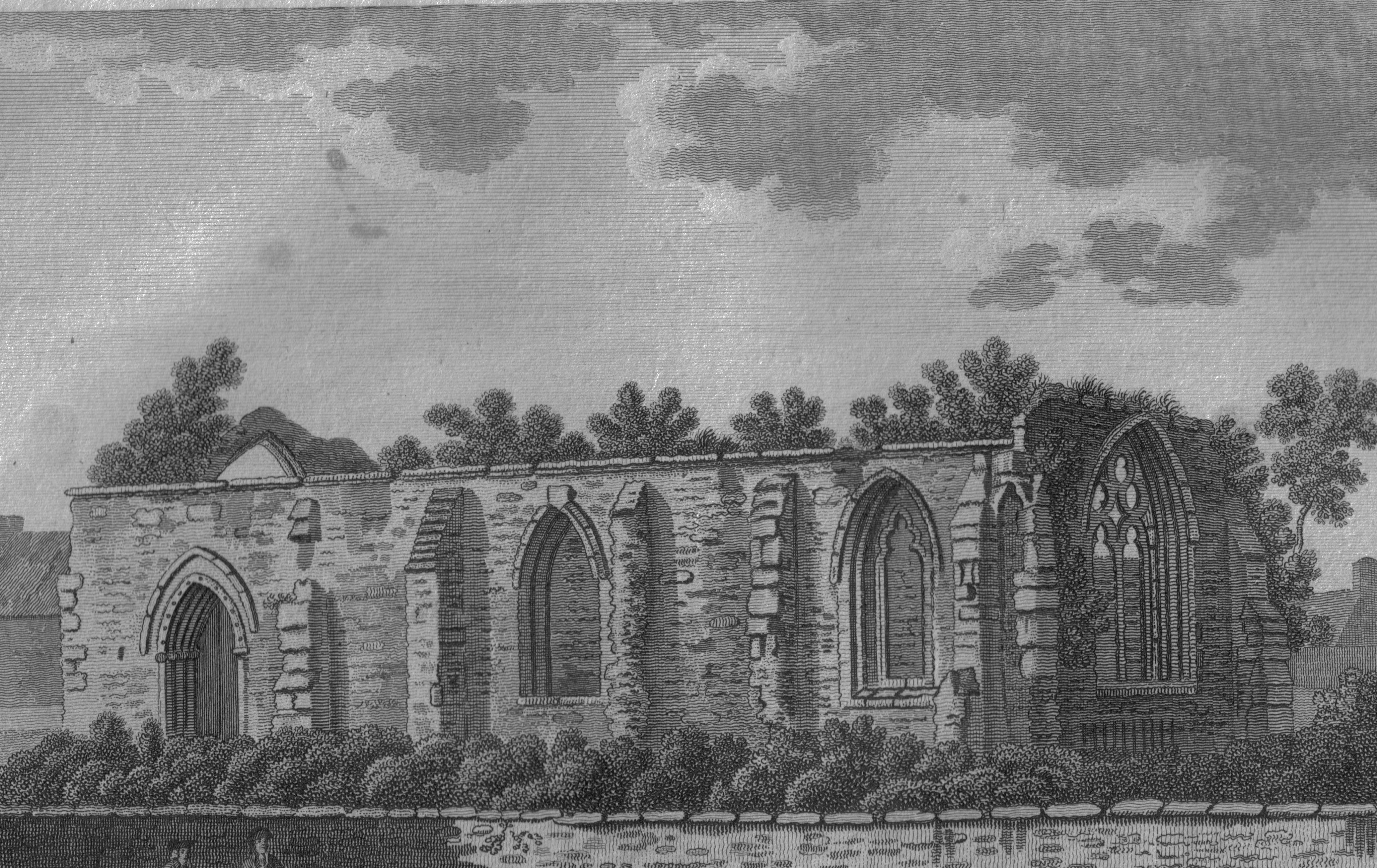 Maybole Collegiate Church, South Ayrshire, Scotland. 1789